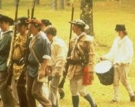 Re-enacting the Battle of Alamance.